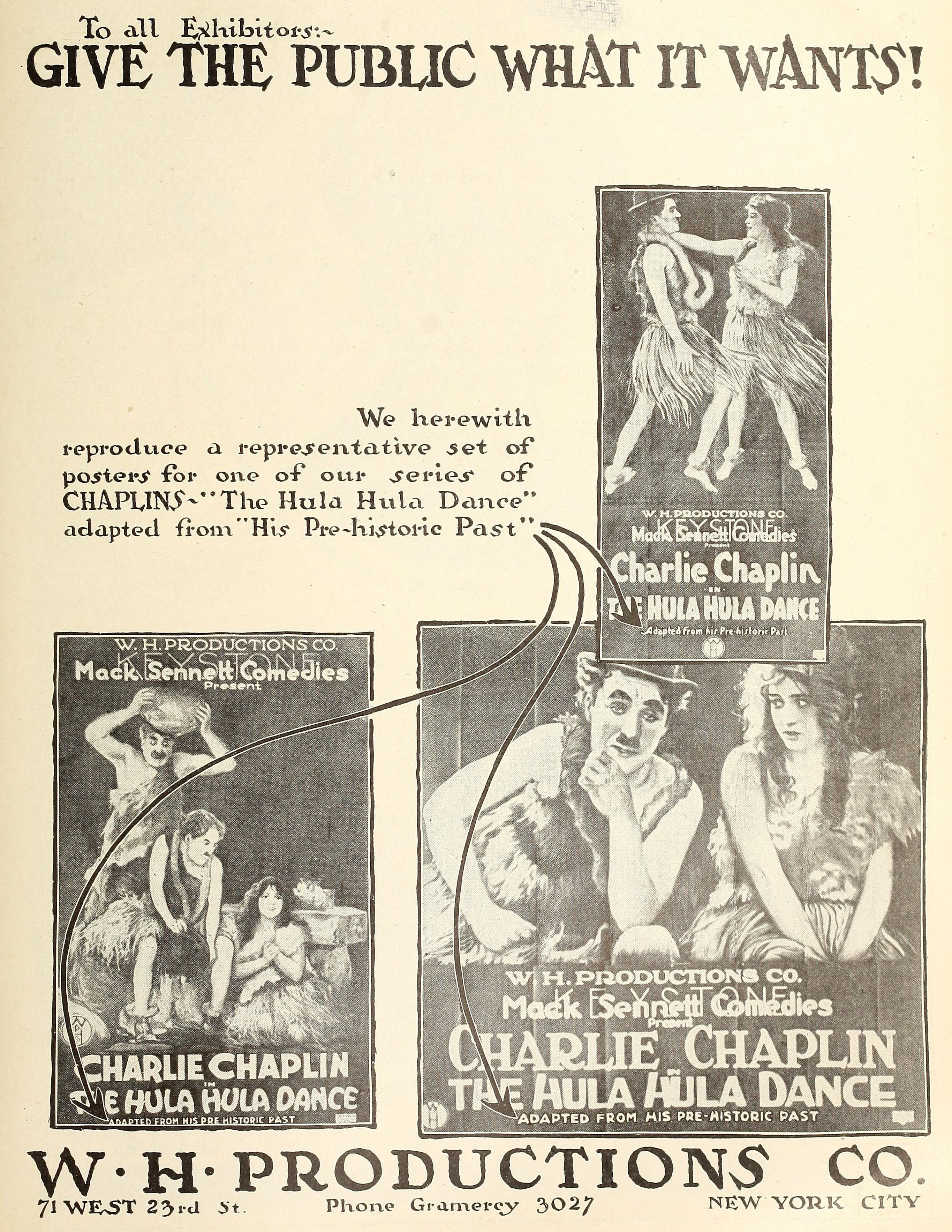 Advertisement for His Prehistoric Past in Motion Picture News